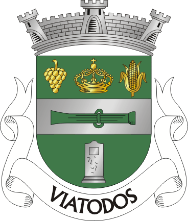 Crest of Viatodos, Barcelos (Portugal)